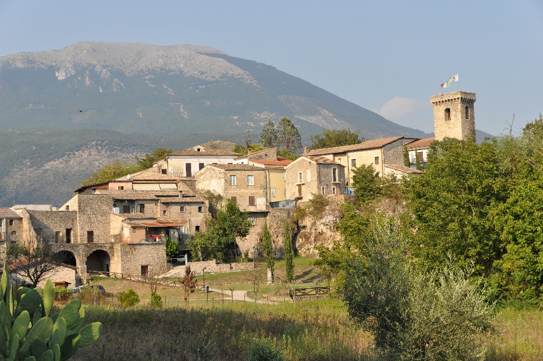 Aquino (Frosinone), medieval quarter and castle of the counts of Aquino, 2012 Dieses Foto entstand in Zusammenarbeit mit Stadtbesichtigungen.de Die Seiten Stadtbesichtigungen.de, der dazugehörige Reise Blog sowie die Facebookseite: Stadtbesichtigungen Rom dürfen dieses Bild für Ihre Veröffentlichungen ohne den Hinweis auf Wikipedia, Commons bzw der Lizenz verwenden. Die Verantwortlichen habe von mir (Ra Boe) die Originaldaten zur freien Verfügung übermittelt bekommen. Foro Appio Mansio Hotel